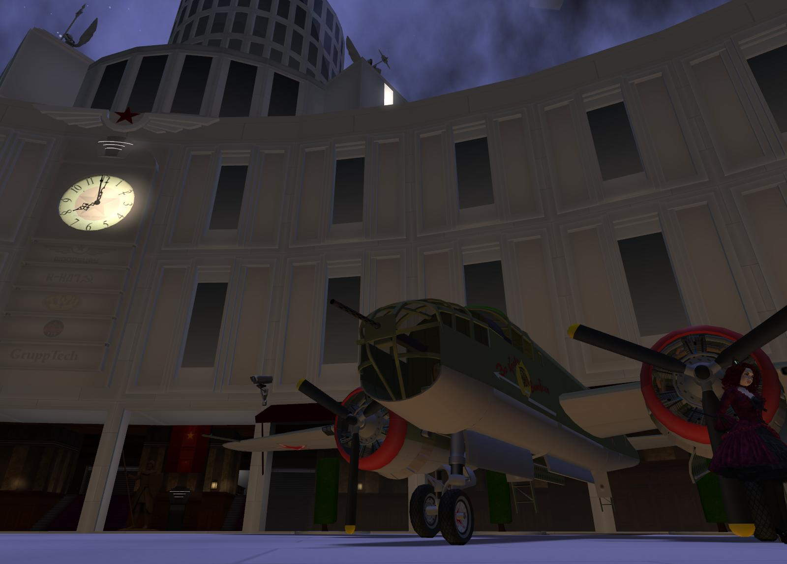 The Woodbury campus as found in Second Life